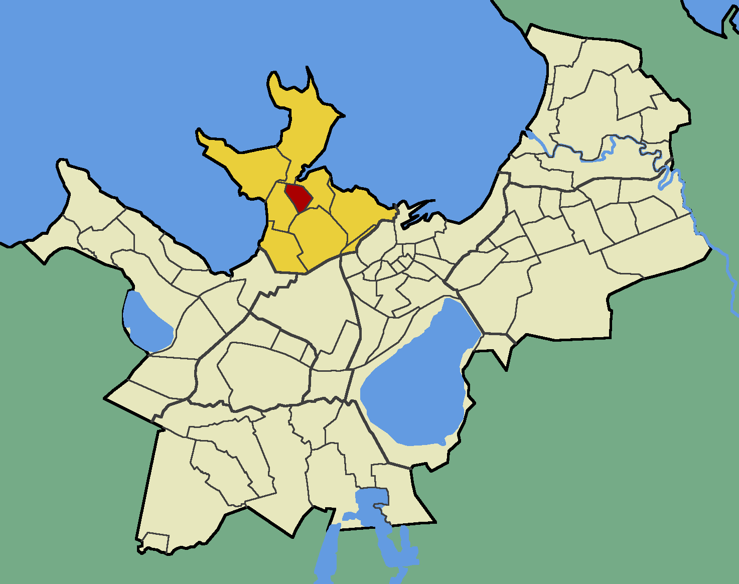 Map of Tallinn (Estonia) with borders of the quarters, Põhja-Tallinn district and Sitsi quarter emphasised